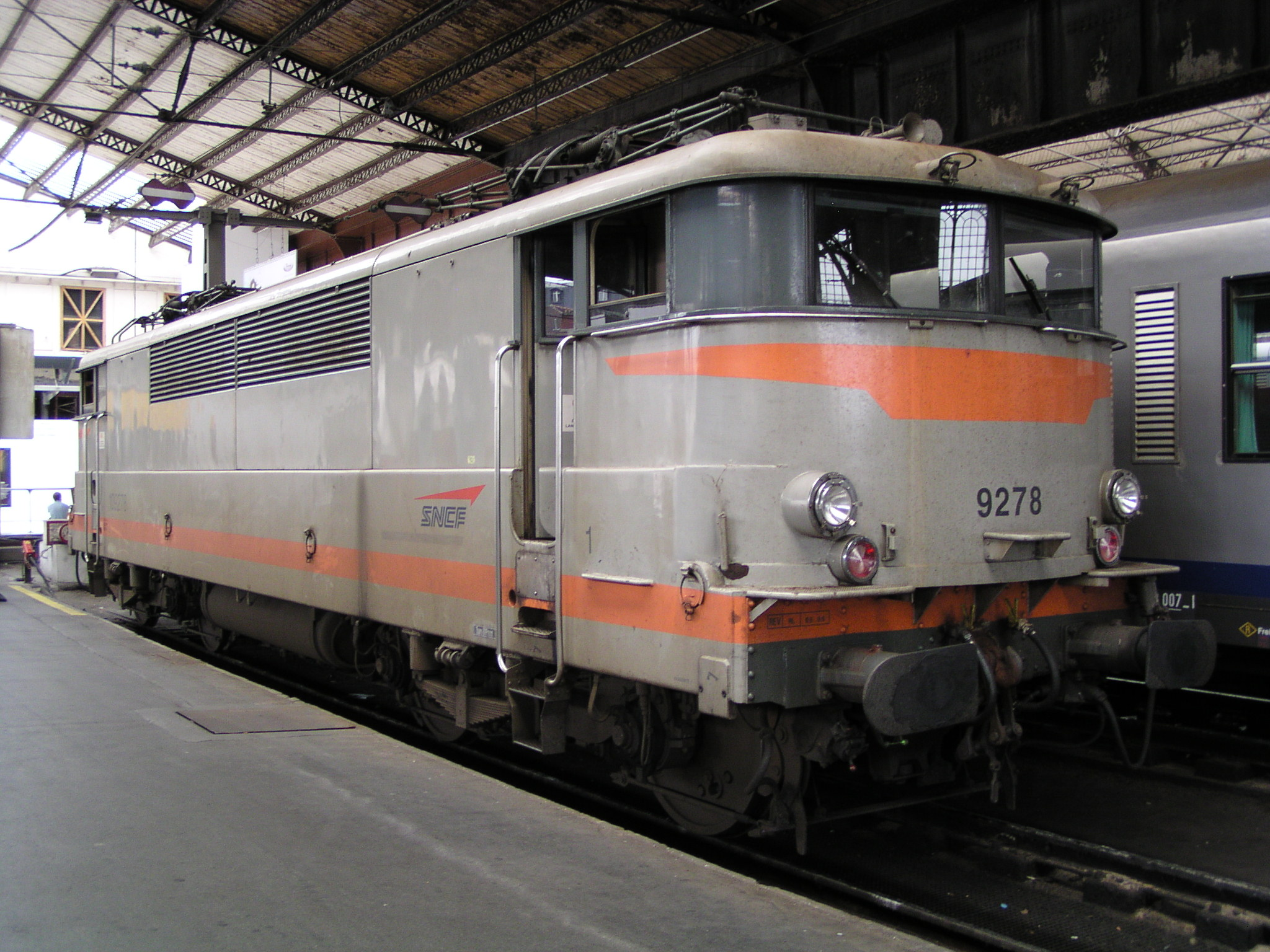 SNCF Class BB 9200, no. 9278 at Paris Gare d'Austerlitz on 5th September 2005. Image by Phil Scott (Our Phellap)